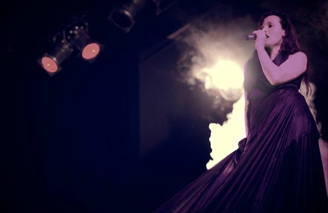 C.F.F. e il Nomade Venerabile live 2010